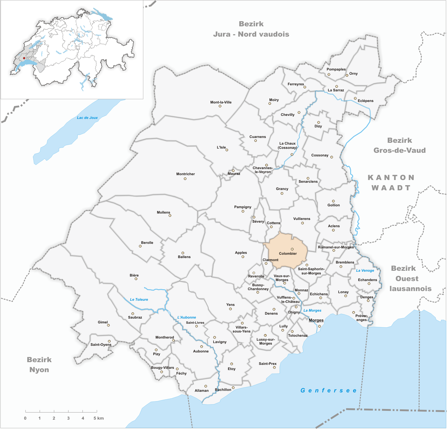 Municipality Colombier